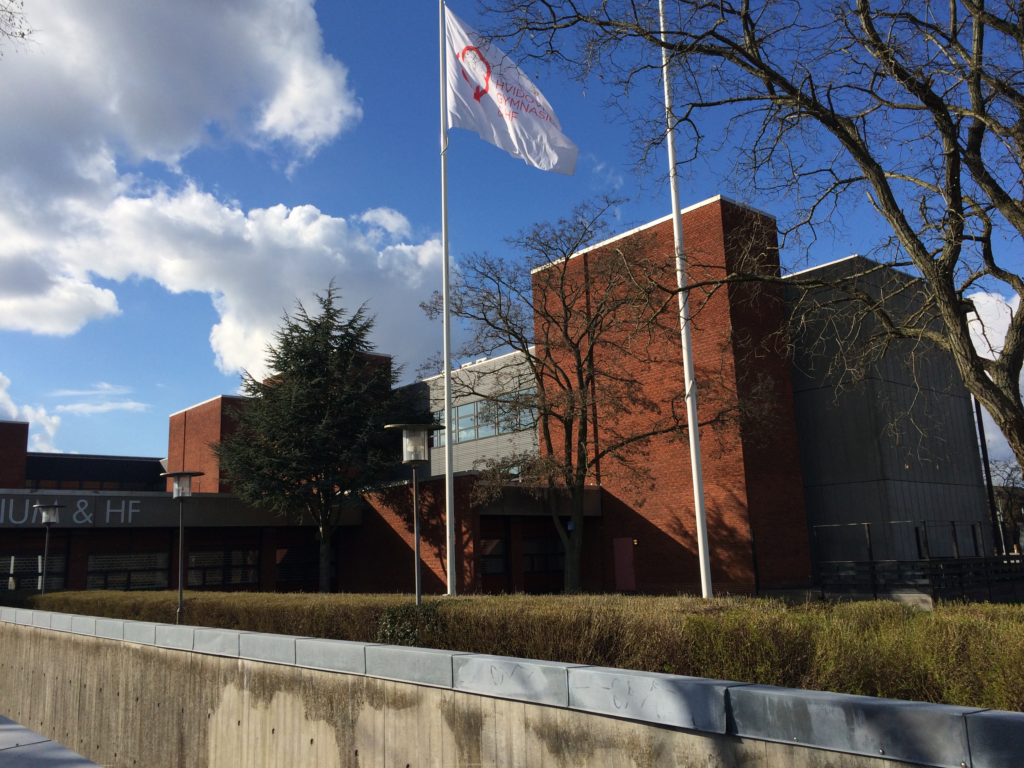 Hvidovre Gymnasium & HF in Avedøre, Hvidovre, Denmark seen from the east